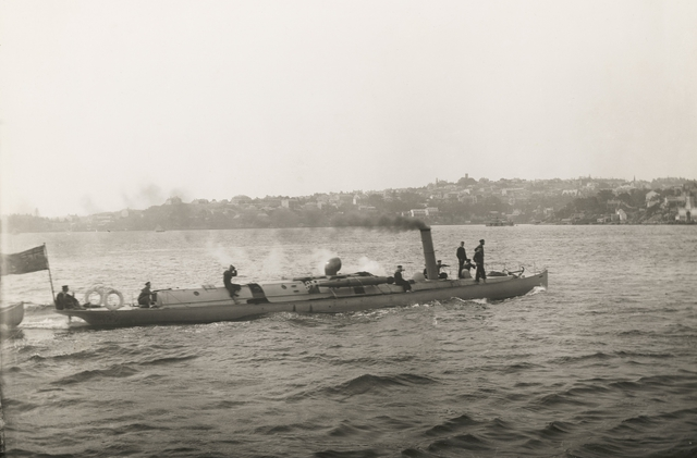 AWM Caption: SYDNEY, NSW. THE NSW 2ND CLASS TORPEDO BOAT AVERNUS STEAMING DOWN SYDNEY HARBOUR. THE AVERNUS AND HER SISTER SHIP ACHERON WERE BUILT IN SYDNEY AND WERE COMMISSIONED IN 1885. BOTH TORPEDO BOATS WERE SOLD IN 1902 WHEN THE NSW NAVAL FORCES WERE REORGANISED.